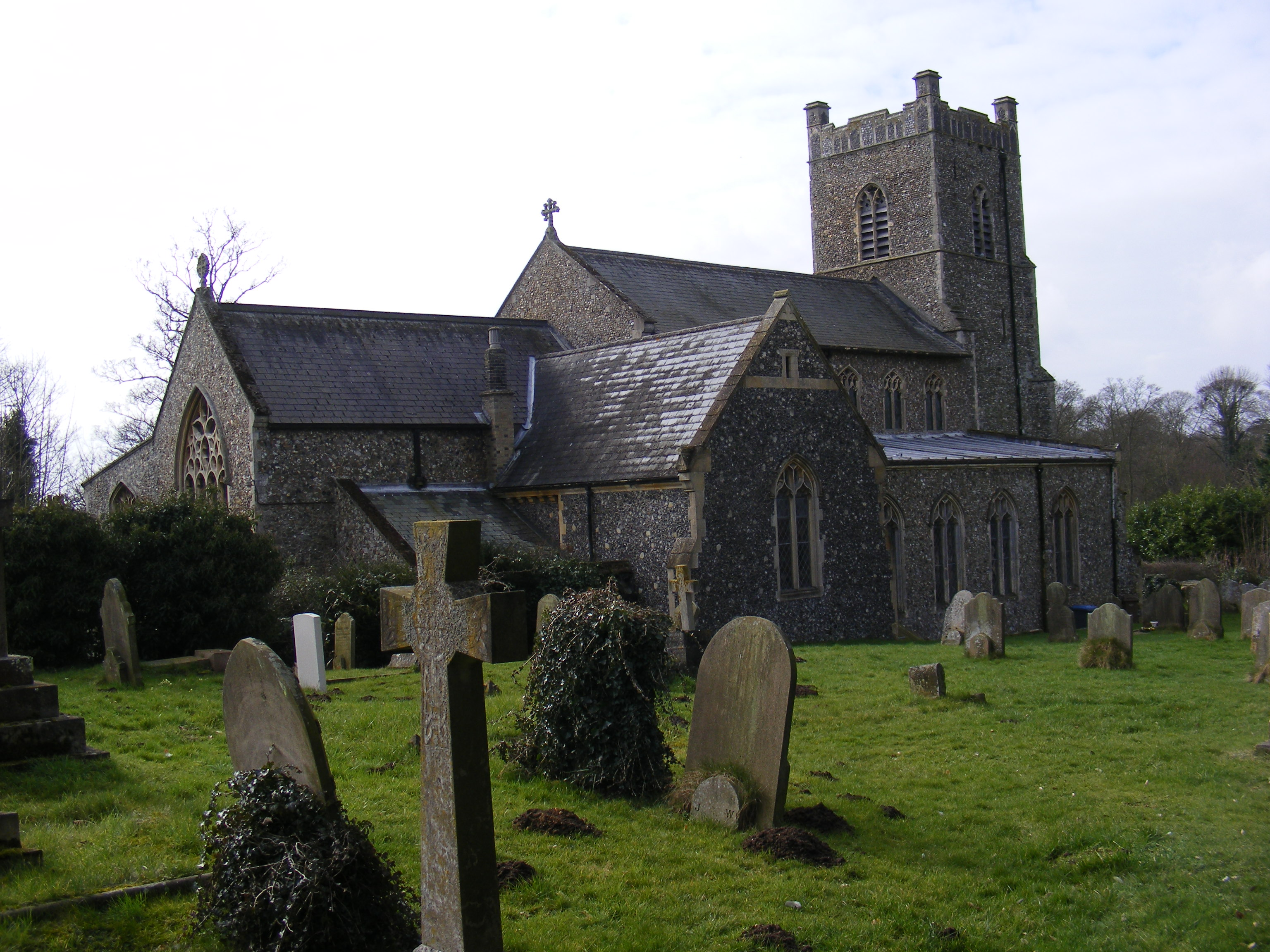 St.John the Baptist Church, Saxmundham, Suffolk. For more information, go to